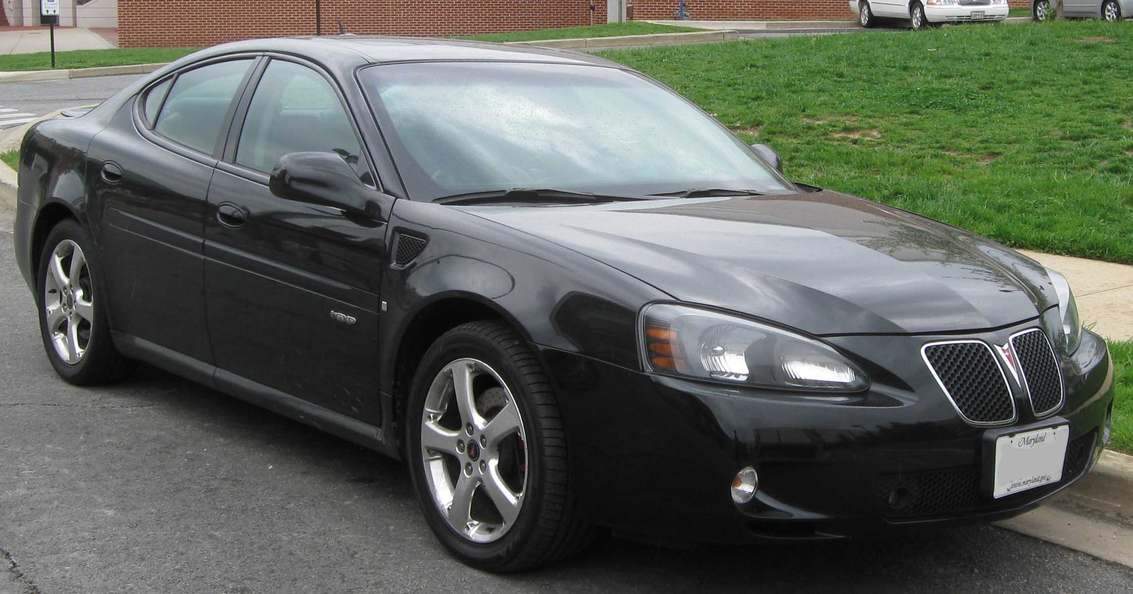 2005-2008 Pontiac Grand Prix photographed in College Park, Maryland, USA.